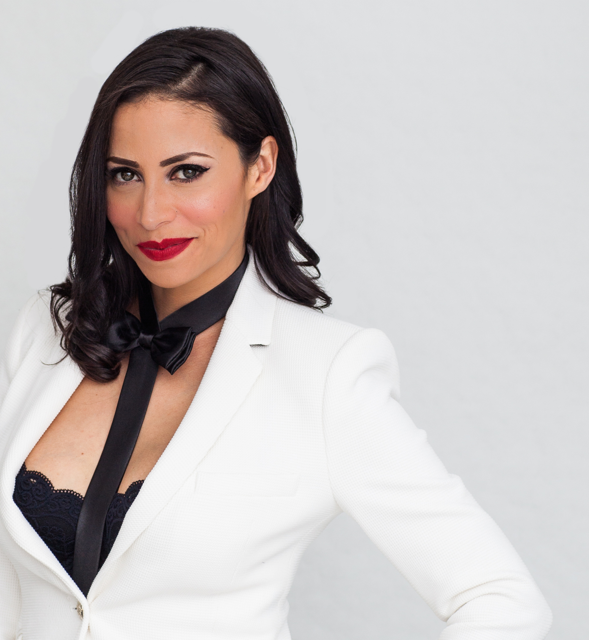 Author Image